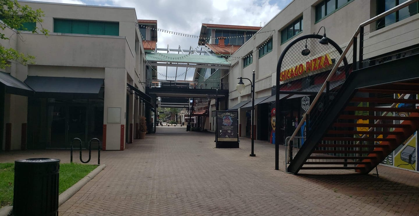 The Jacksonville Landing on 6/18/19. All but one businesses are closed.